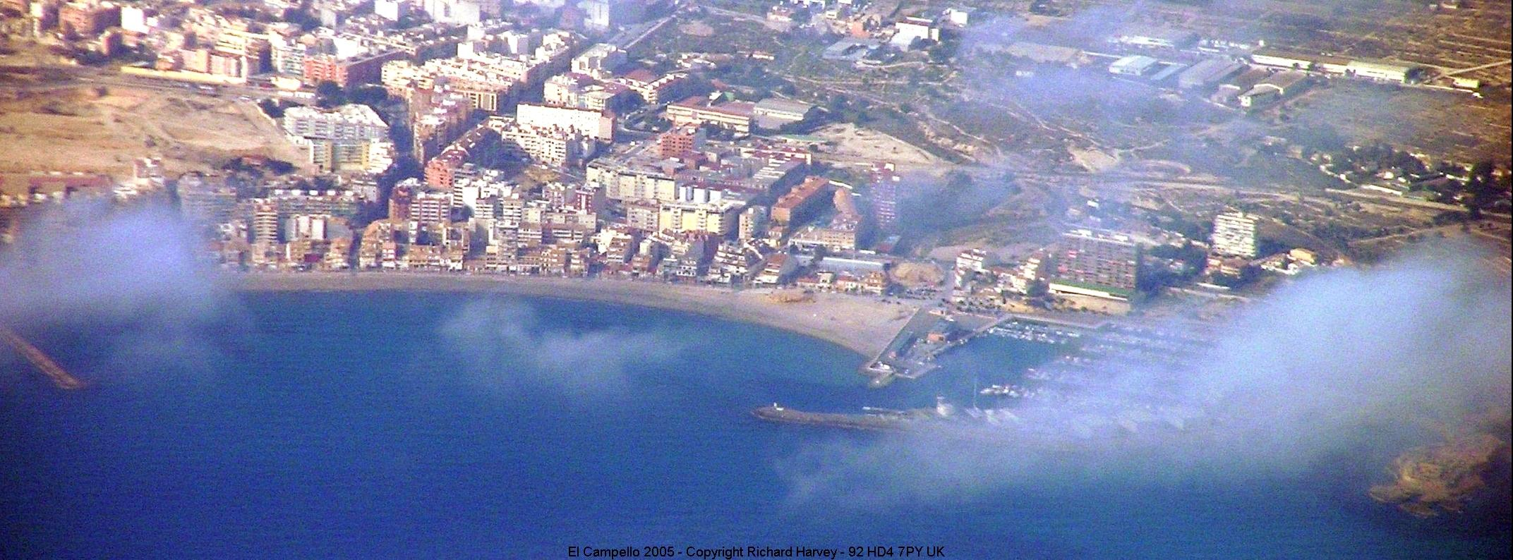 An Aerial Shot of El Campello on the Costa Blanca of Spain taken by myself